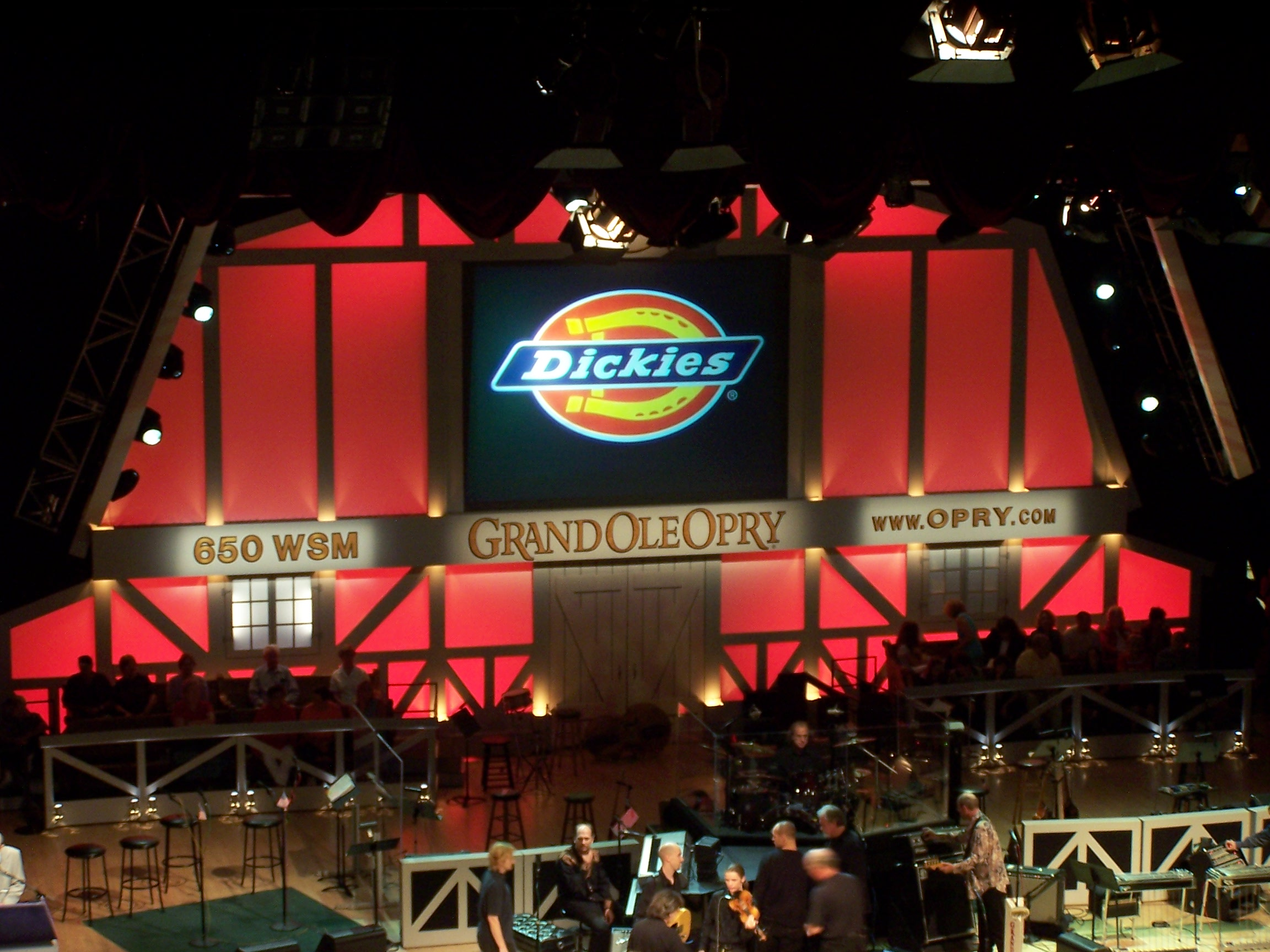 Grand Ole Opry, Nashville TN